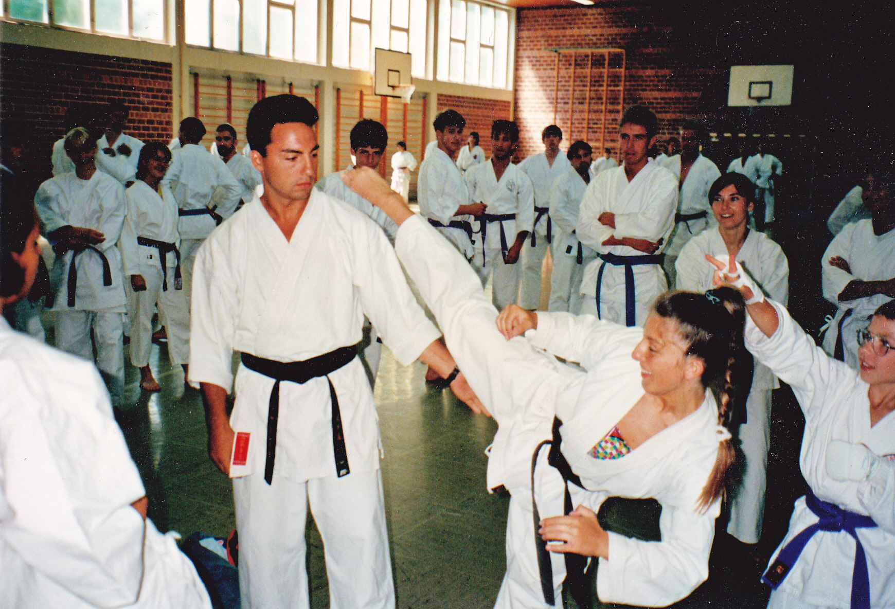 Mawashi-geri with World-Champion Josè Manuel Egea